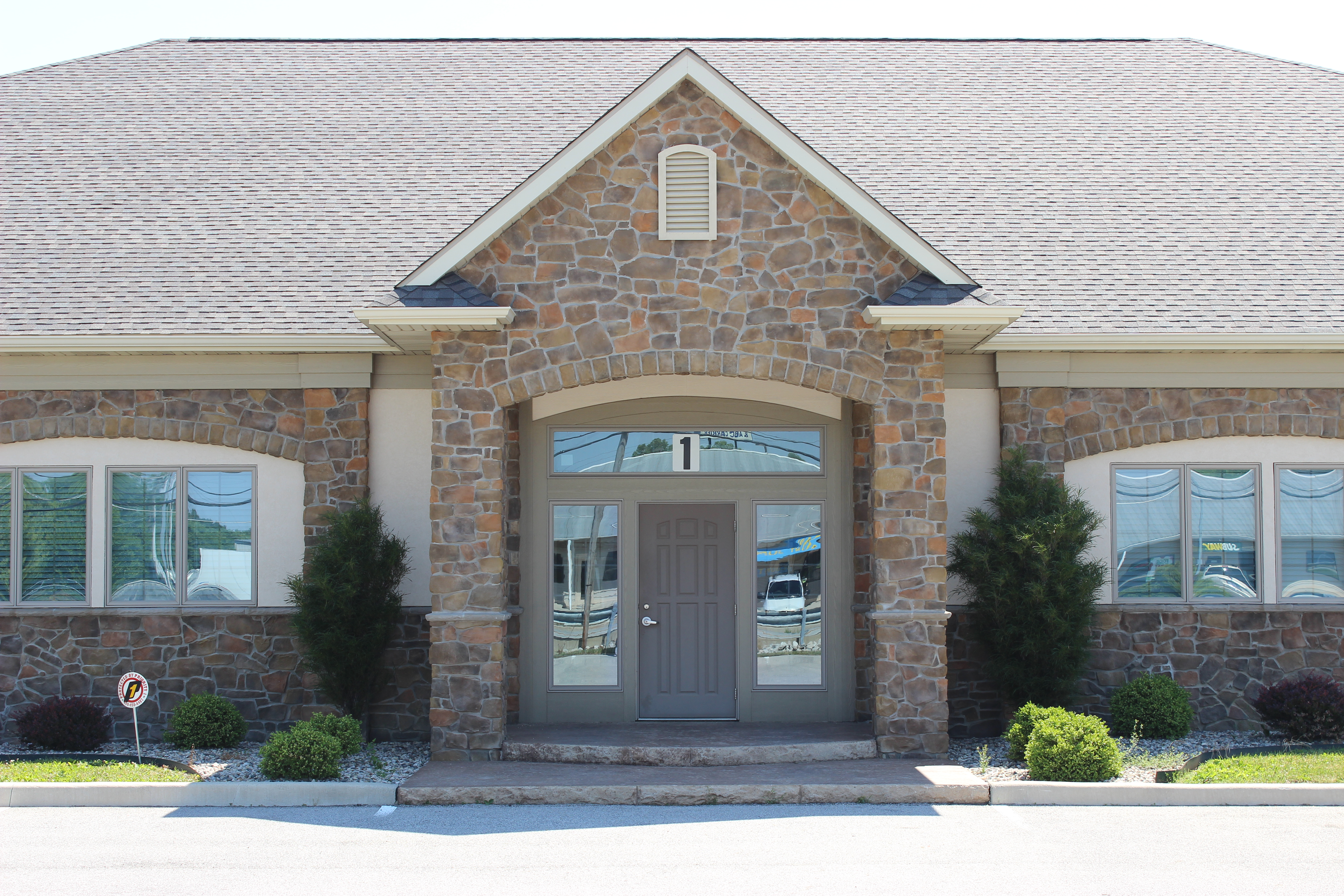 Research and Dev